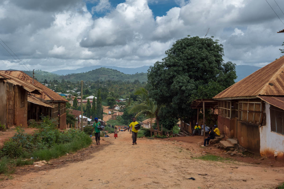 Muheza District